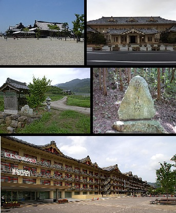 Tenri montage